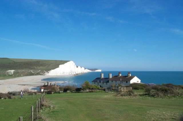 Coastguards Cottages, Cuckmere Haven. View of the "Seven Sisters" cliffs from the Coastguards Cottages, Cuckmere Haven, near Seaford.